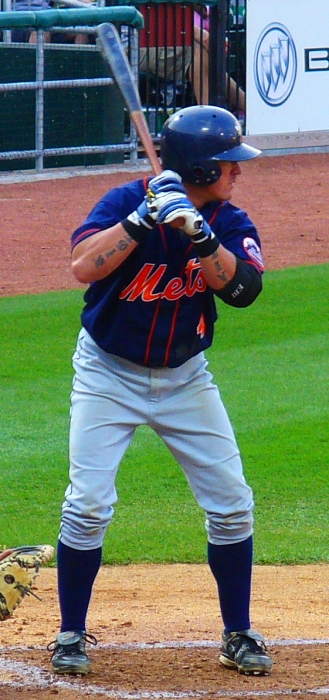 Mark Kiger of the Binghamton Mets batting in a game against the New Hampshire Fisher Cats. 00:41, 19 July 2007 . . Metsfan7 . . 329×700 (232 KB)